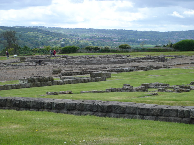 Corbridge Roman Site